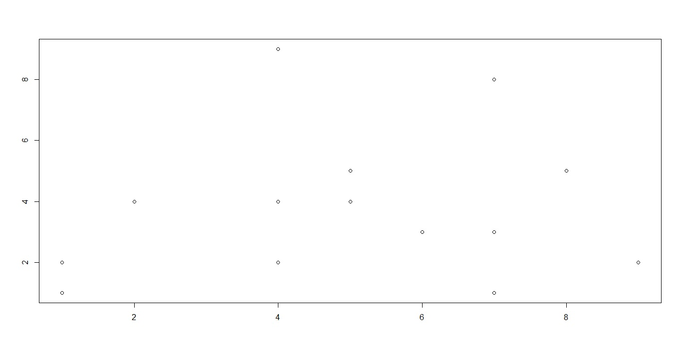 Plot of an example application of the PAM algorithm (Partitioning Around Medoids).